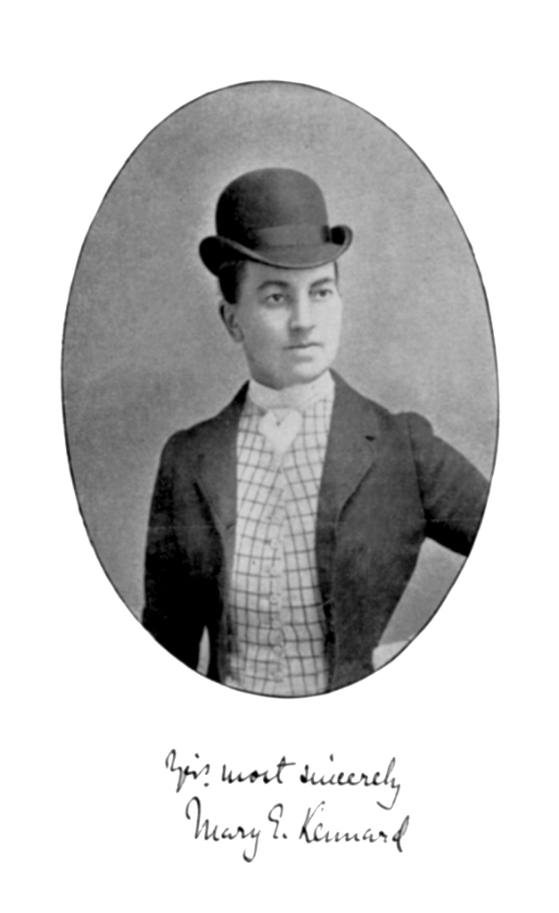 Mrs Edward Kennard - Author - Mary Eliza Kennard - (1850–1936) was an English novelist and writer of non-fiction. Most of her work was published under the name of Mrs Edward Kennard. This pic was included in an 1893 book.